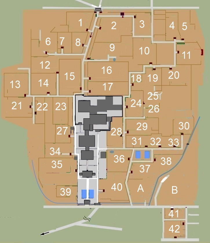 Layout of Myoshin-ji temple, Kyoto